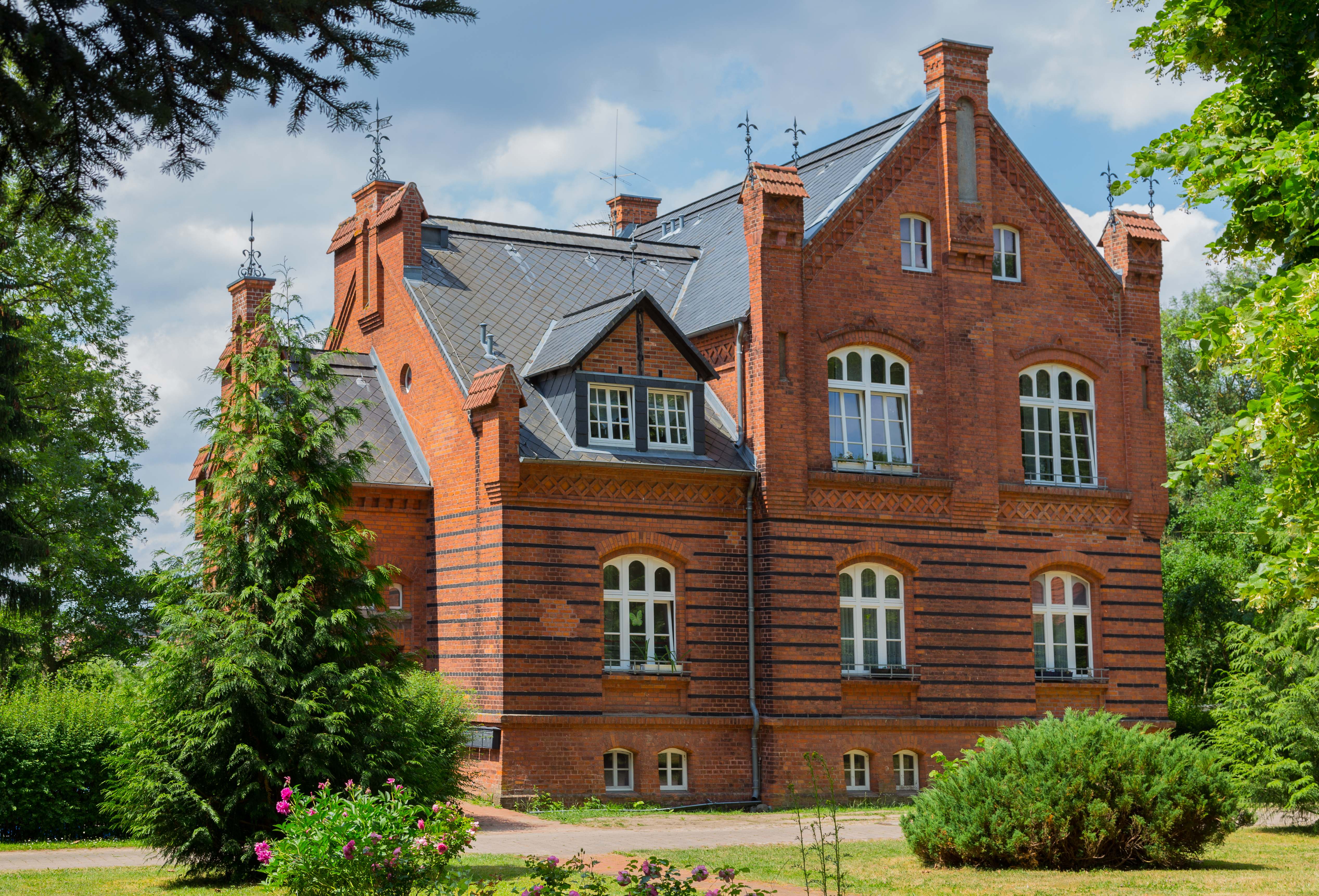 One of the several buildings of the Protestant Stift Marienfließ in Stepenitz, district of Marienfließ, Landkreis Prignitz, Brandenburg, Germany.